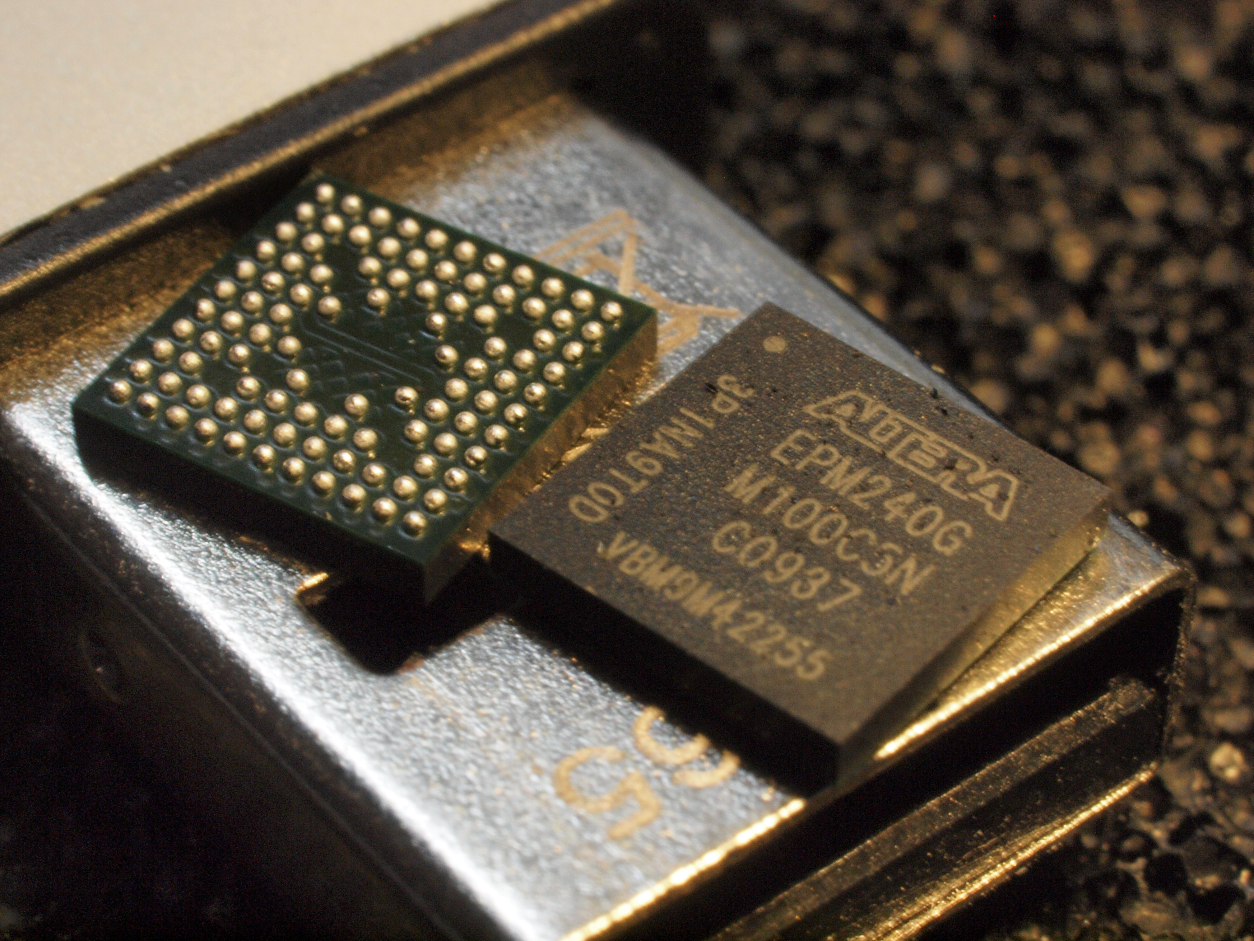 Two CPLD chips, model Altera EPM240G, on an USB plug. The balls of the BGS are 0.5 mm apart.